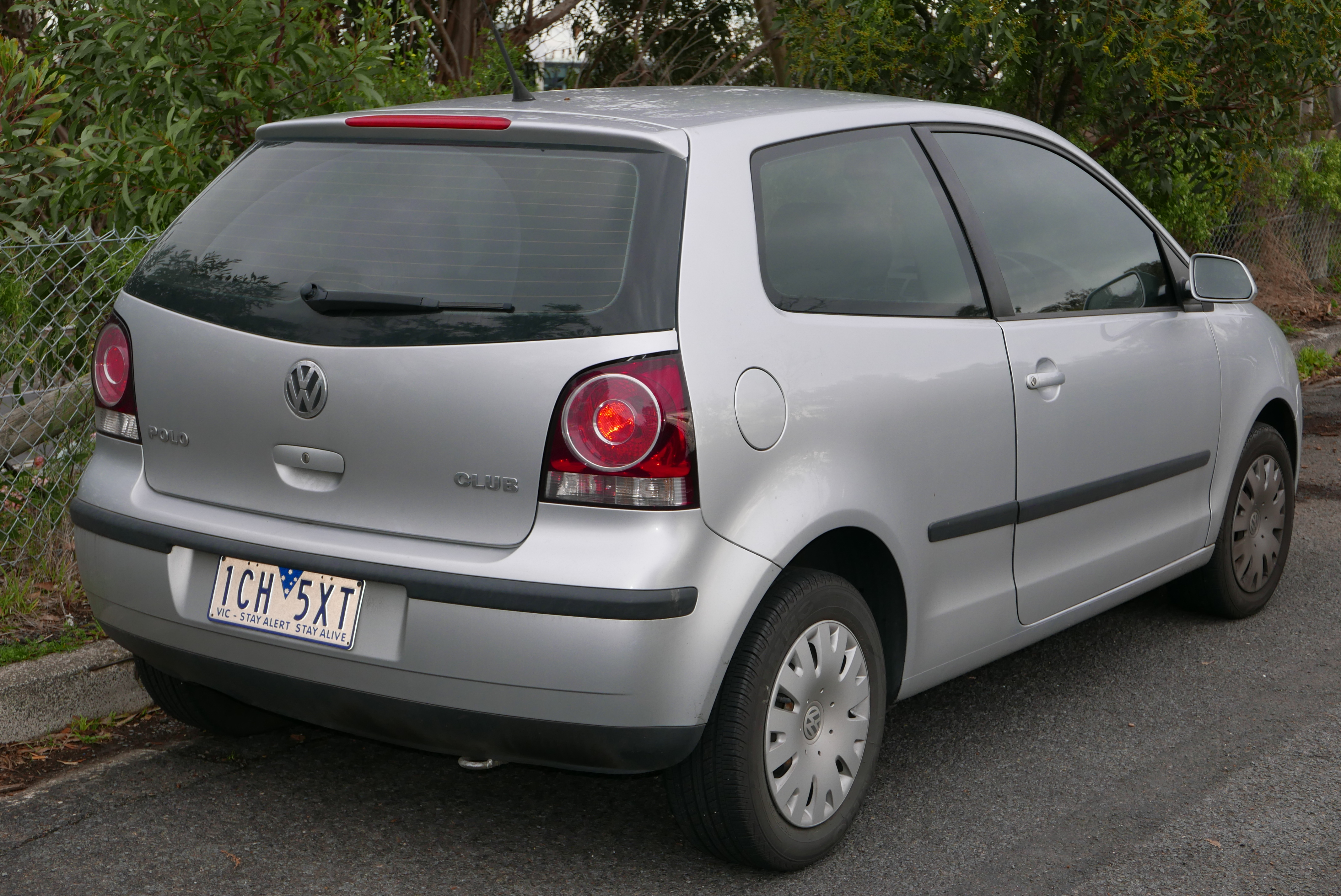 2008 Volkswagen Polo (9N3 MY08) Club 3-door hatchback. Photographed in Kew, Victoria, Australia. Vehicle registration enquiry resultsJurisdictionVictoriaRegistration1CH5XTChassis codeWVWZZZ9NZ8U007662Engine codeBUD213320Compliance date2008-02Year of manufacture2008